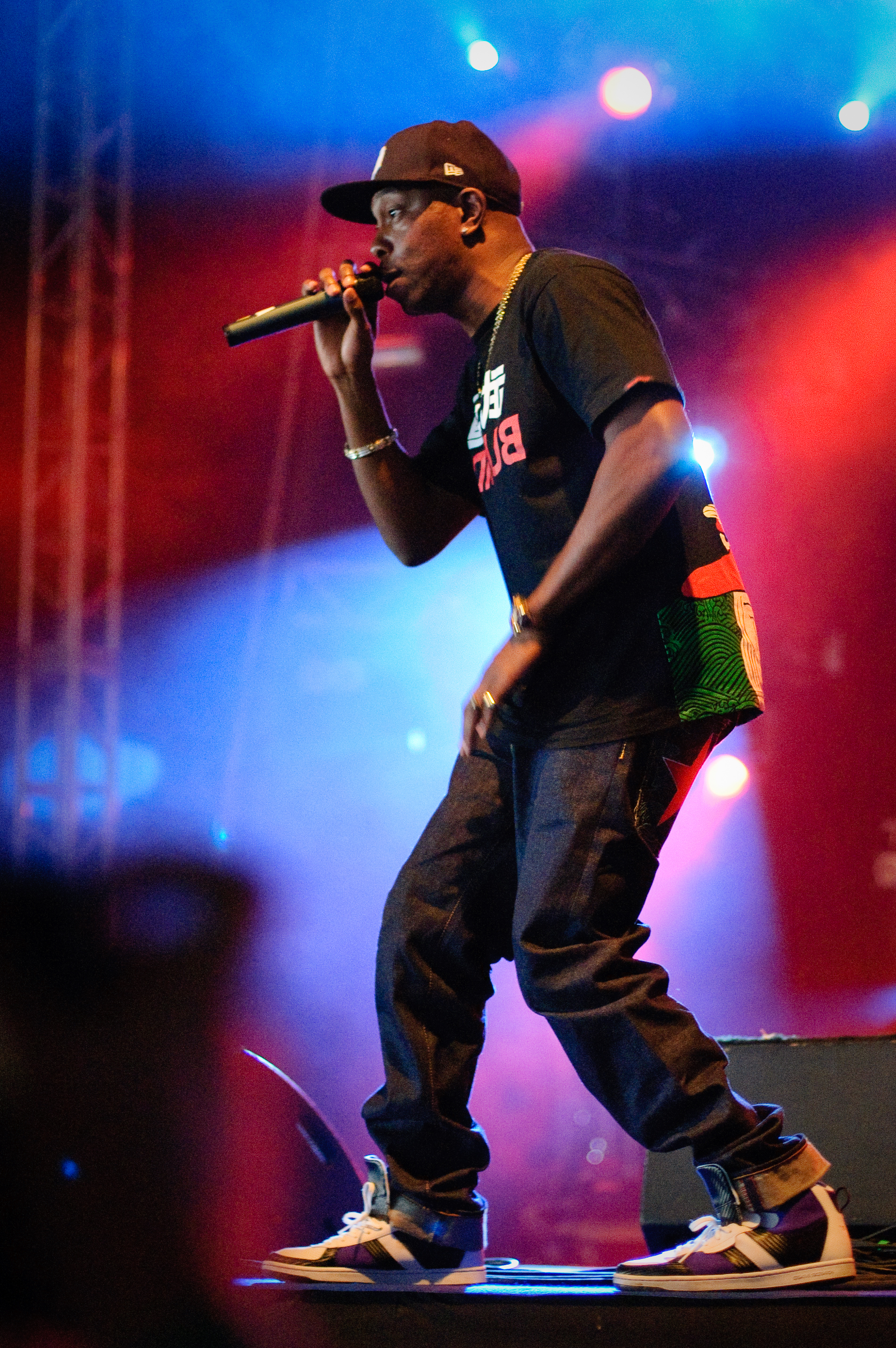 Rapper Dizzee Rascal performing at the 2009 Ilosaarirock festival in Joensuu, Finland.